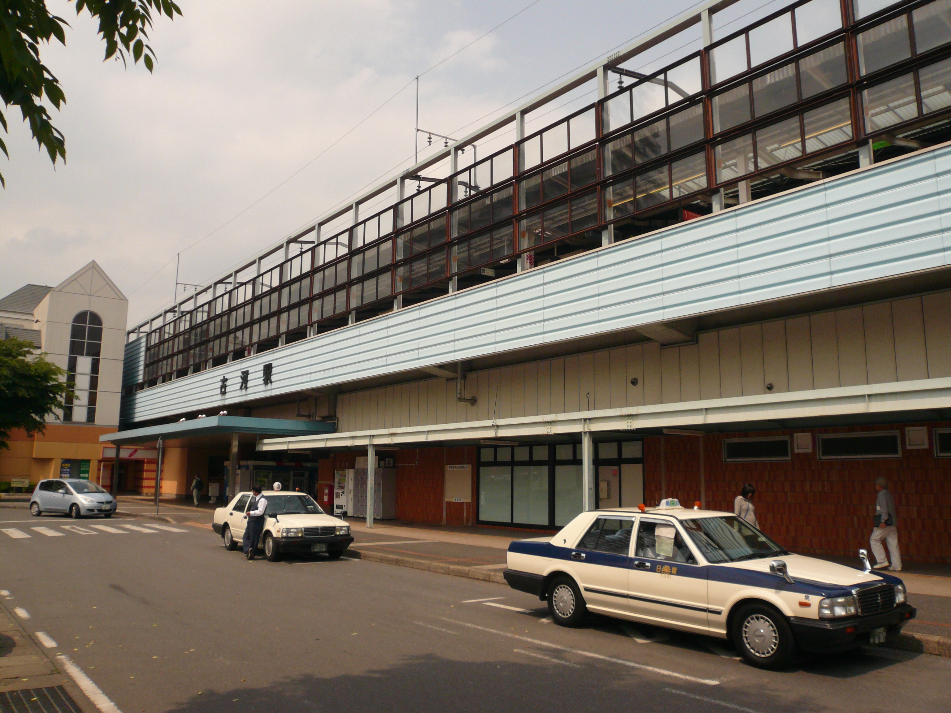 Koga Station, Koga, Ibaraki, Japan